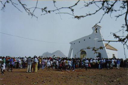 Ribeira Julião, São Vicente Island, Cape Verde. St John's Festival